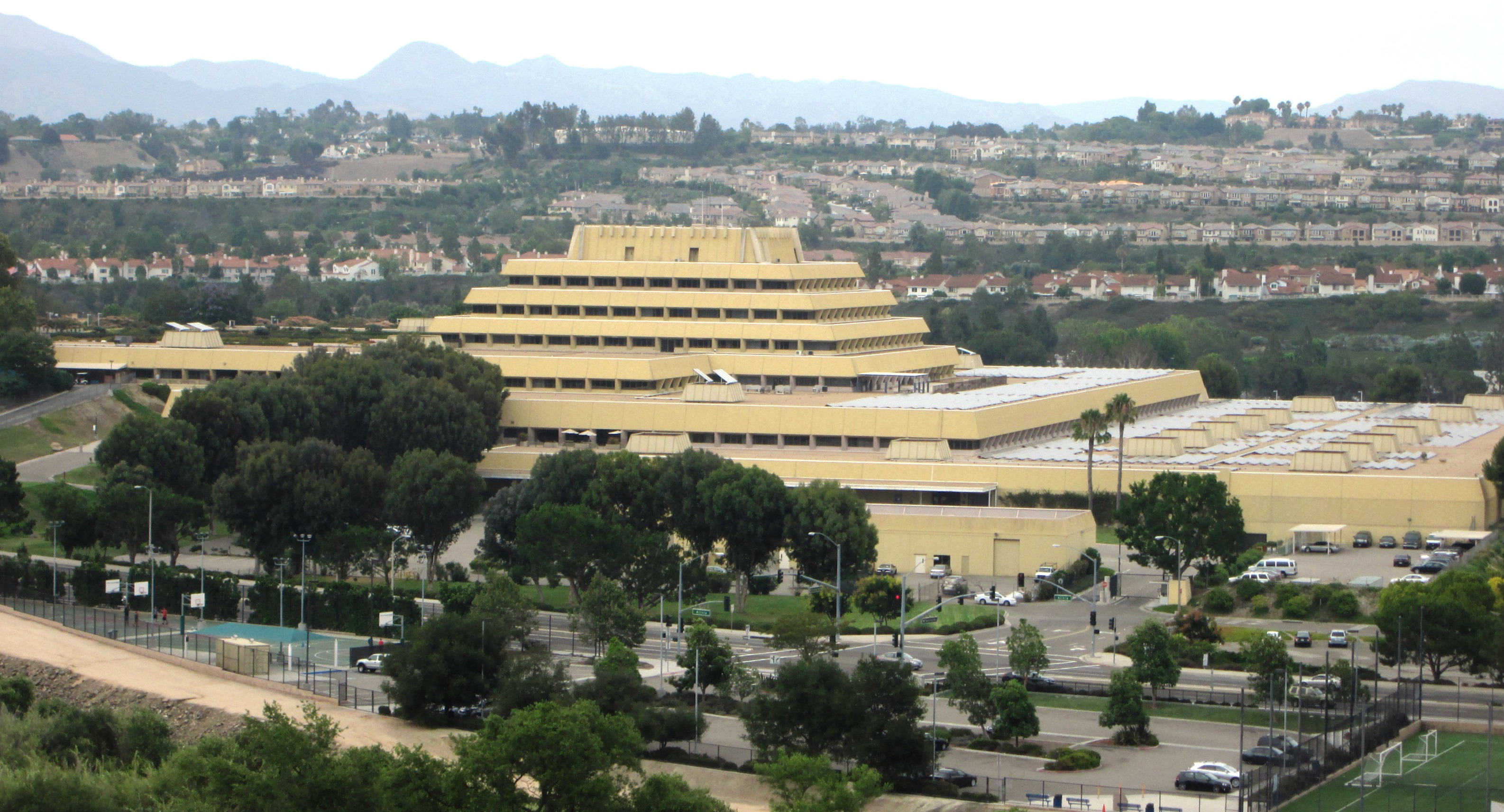 The Chet Holifield Federal Building, colloquially known as "the Ziggurat Building", is a United States government building at 24000 Avila Road in Laguna Niguel, California built between 1968 and 1971, originally for Rockwell International, and designed by William Pereira. It is managed by the General Services Administration.